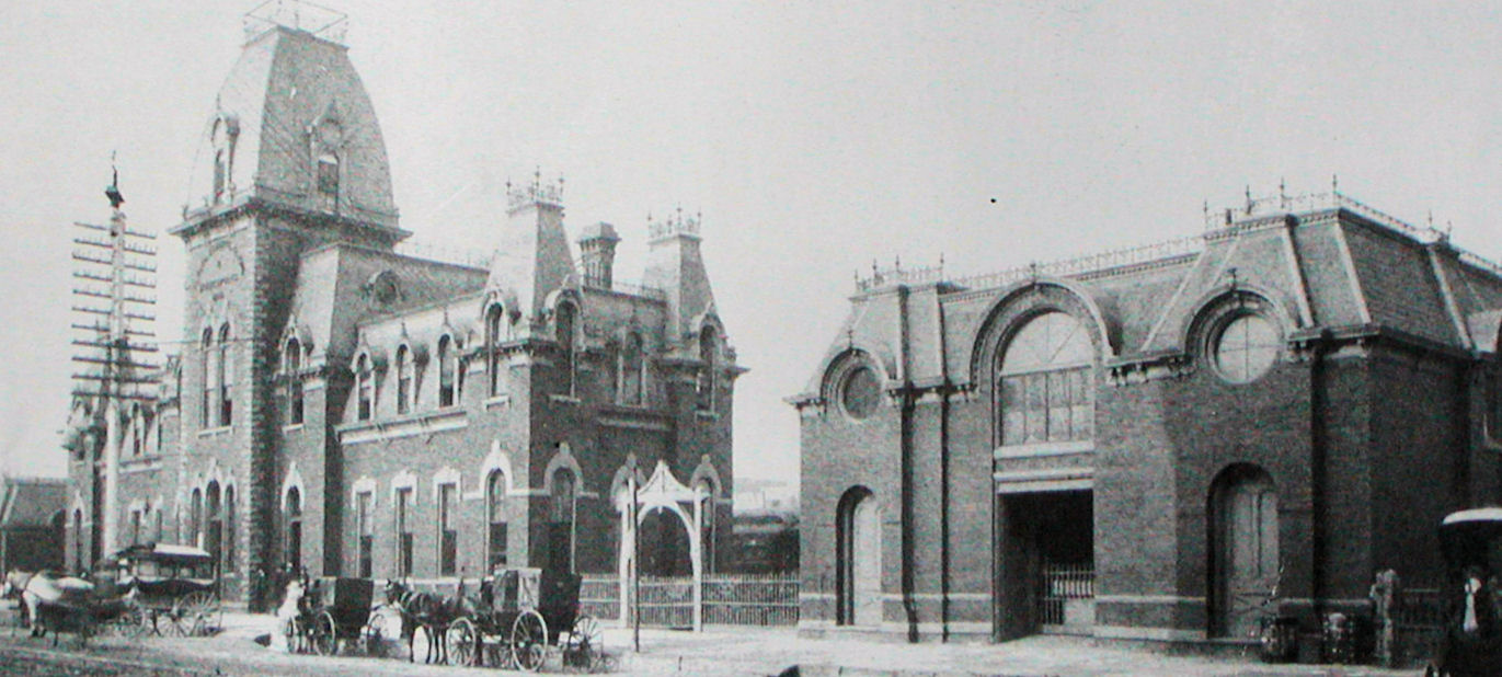 Photograph ca. 1878 - courtesy Hennepin History Museum